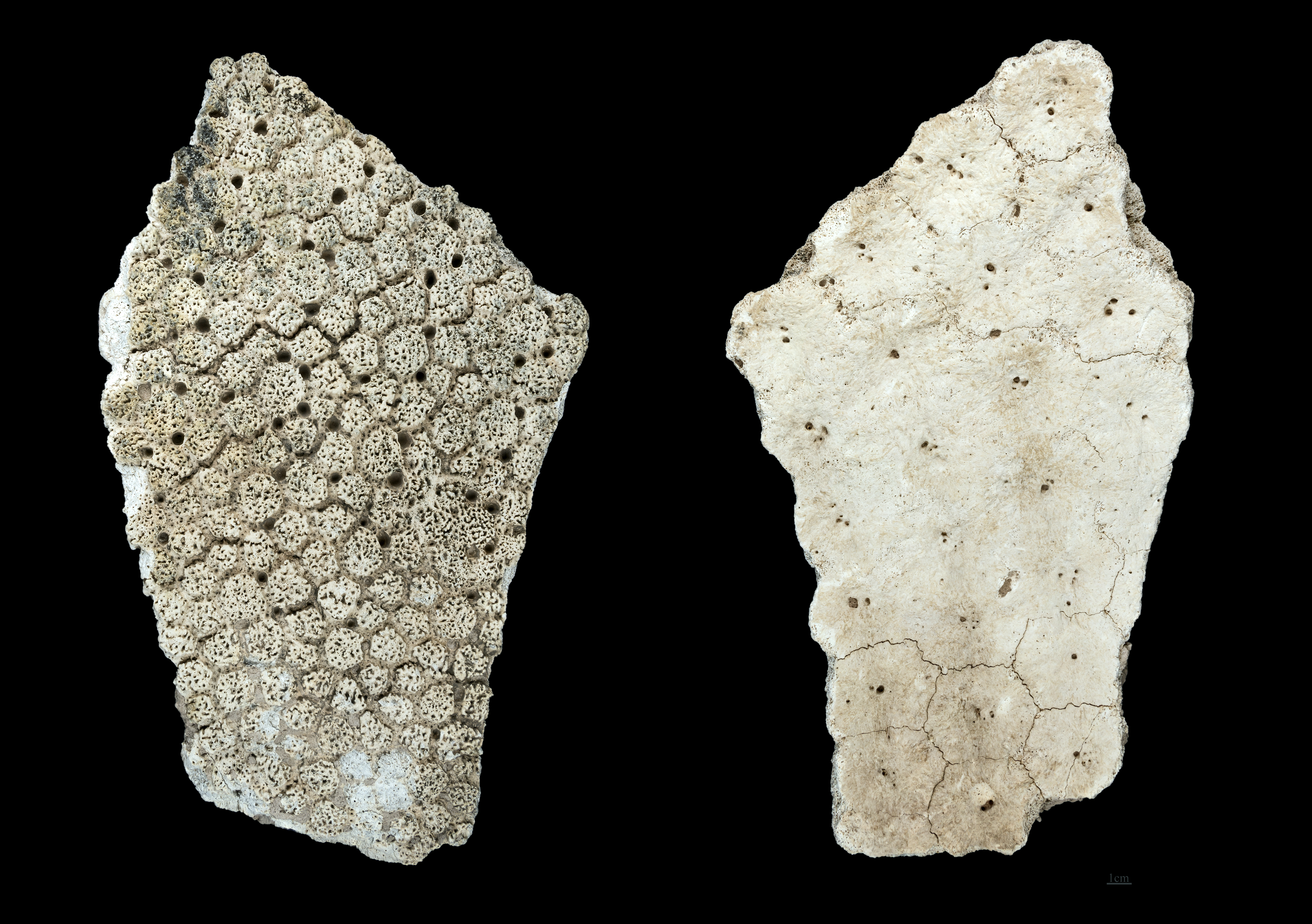 Glyptodon clavipes, fragment of carapace, fromer collection of Fernand Lahille Stage : Pleistocene 2,588,000 to 11,700 years ago Size : 35x21x4 cm